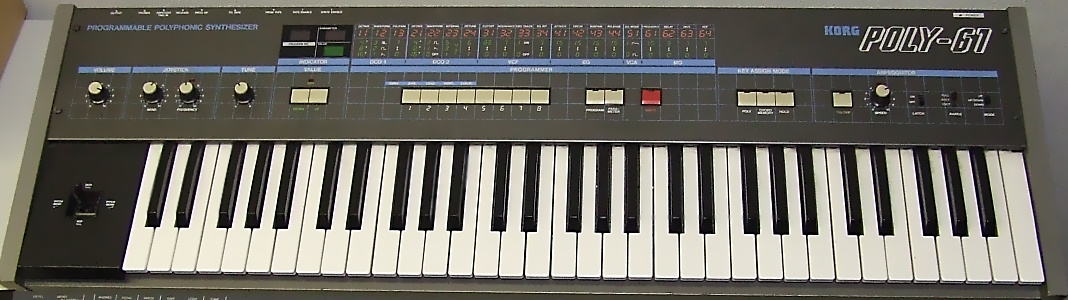 The Korg Poly 61 analogue synthesiser